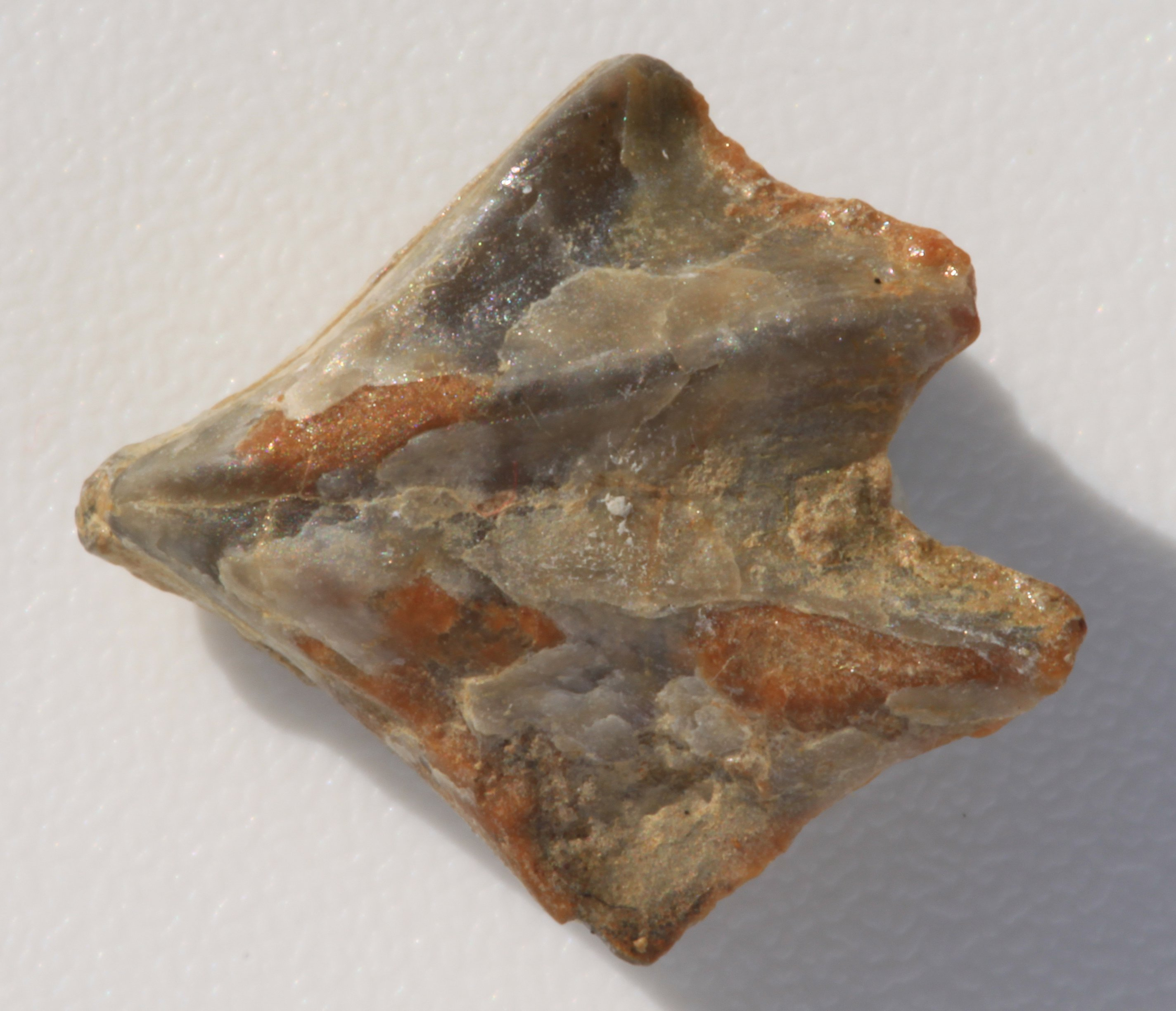 The lampshell Quadriloba colletti, Order Athyridida, Family Athyrididae, 17mm along the axis, view of the pedunculate valve, found at the Cordillera Cantábrica, Spain, from the late Lower Devonian